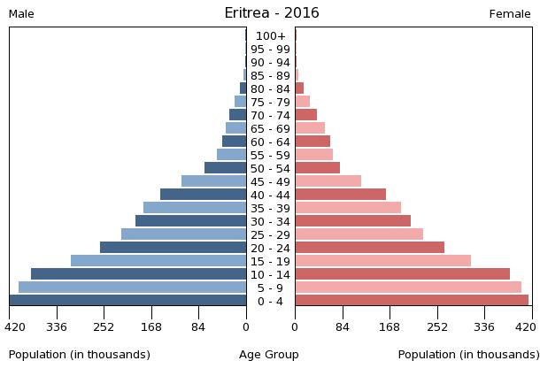 The population pyramid of Eritrea illustrates the age and sex structure of population and may provide insights about political and social stability, as well as economic development. The population is distributed along the horizontal axis, with males shown on the left and females on the right. The male and female populations are broken down into 5-year age groups represented as horizontal bars along the vertical axis, with the youngest age groups at the bottom and the oldest at the top. The shape of the population pyramid gradually evolves over time based on fertility, mortality, and international migration trends.